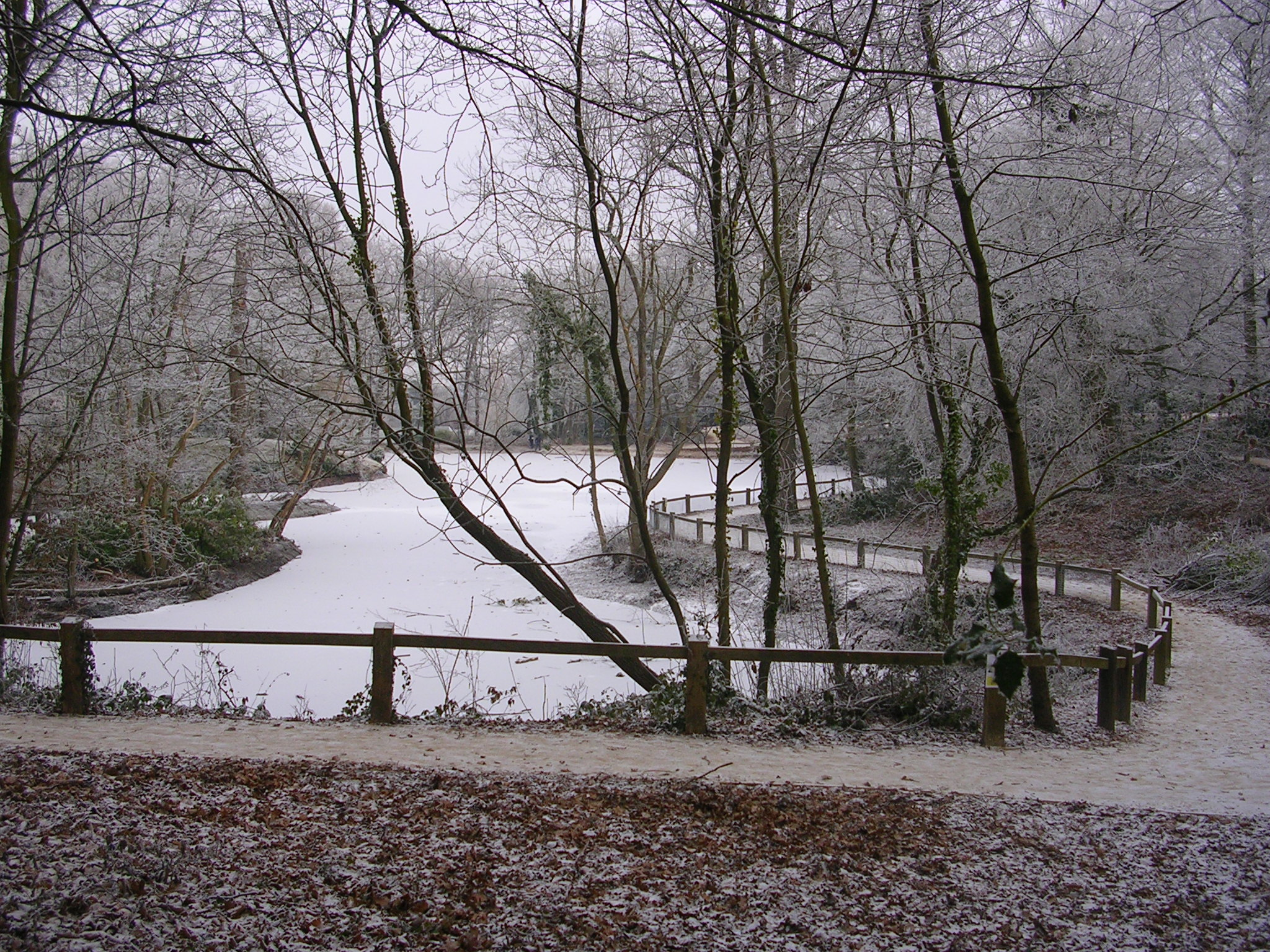 Pond at Goff's Park Crawley, West Sussex, England